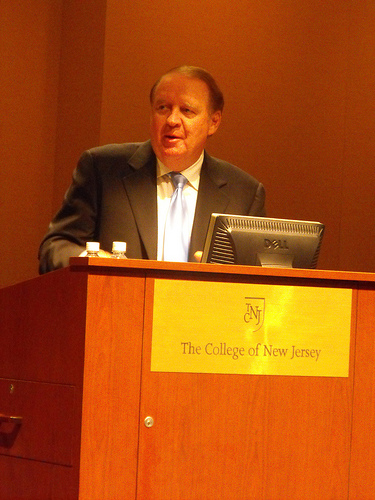 Richard Codey speaking at The College of New Jersey Library Auditorium